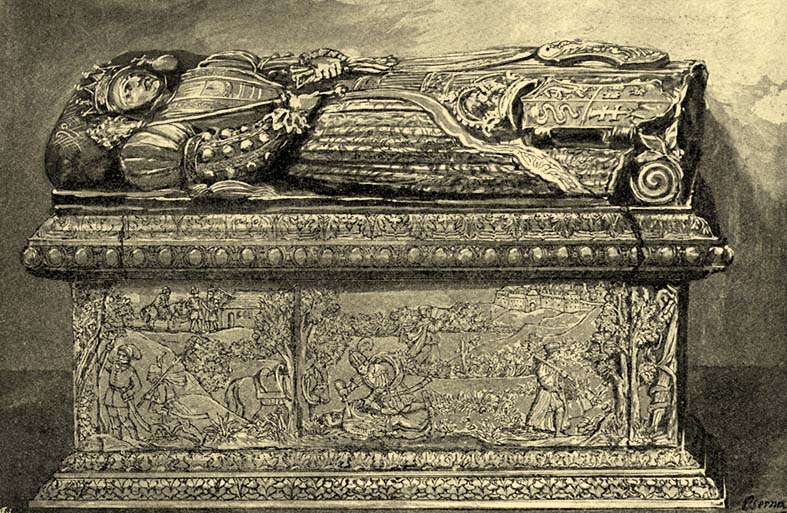 Isabella Jagiellon's tomb.